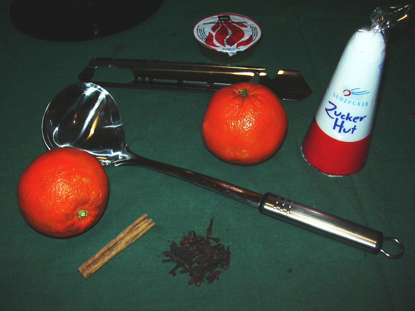 incredients for a burnt punch Nachbearbeitung / postprocessing: Oliver Merkel with The GIMP